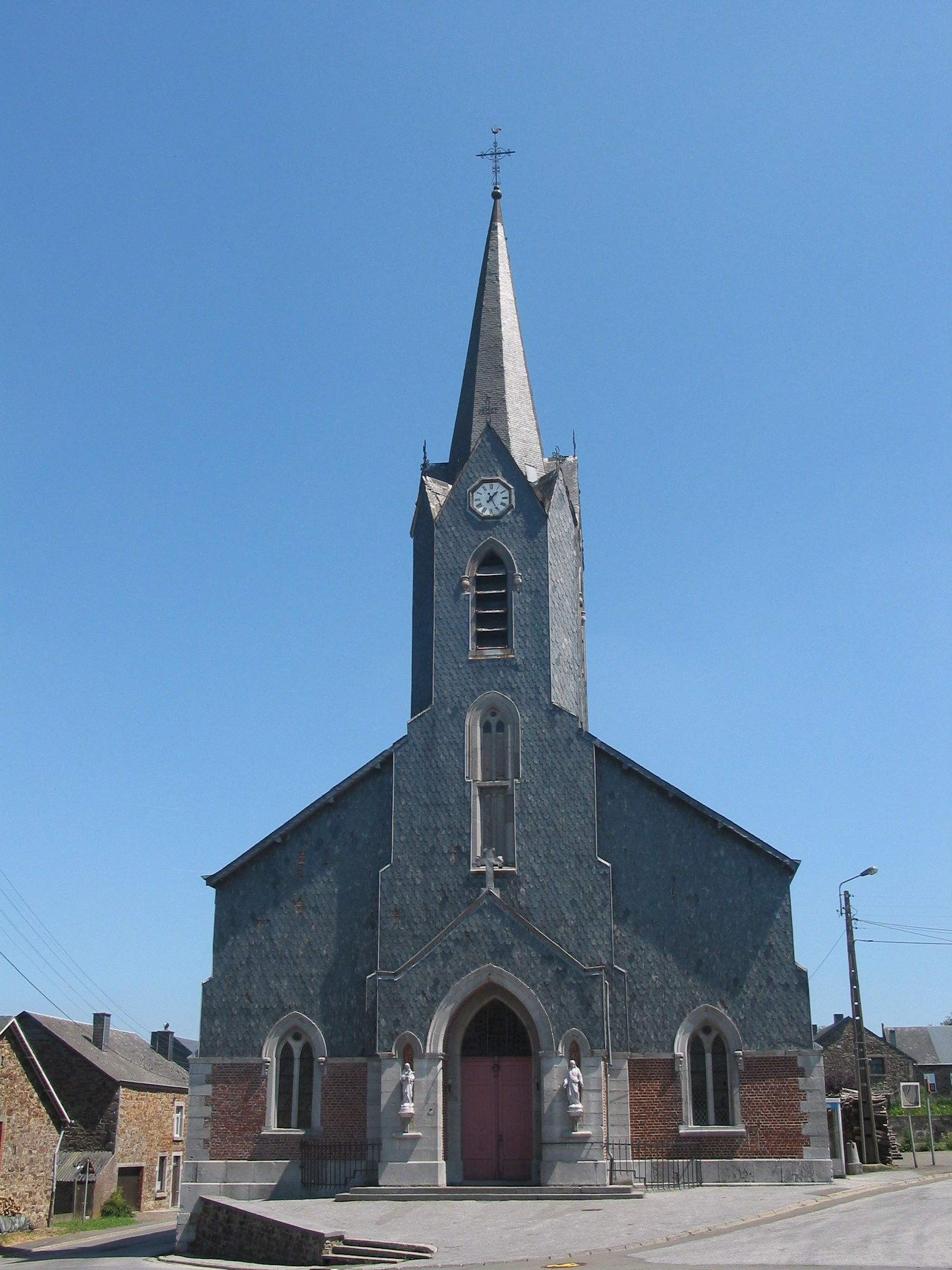 Haut-Fays (Belgium), Saint Remaclus' church.